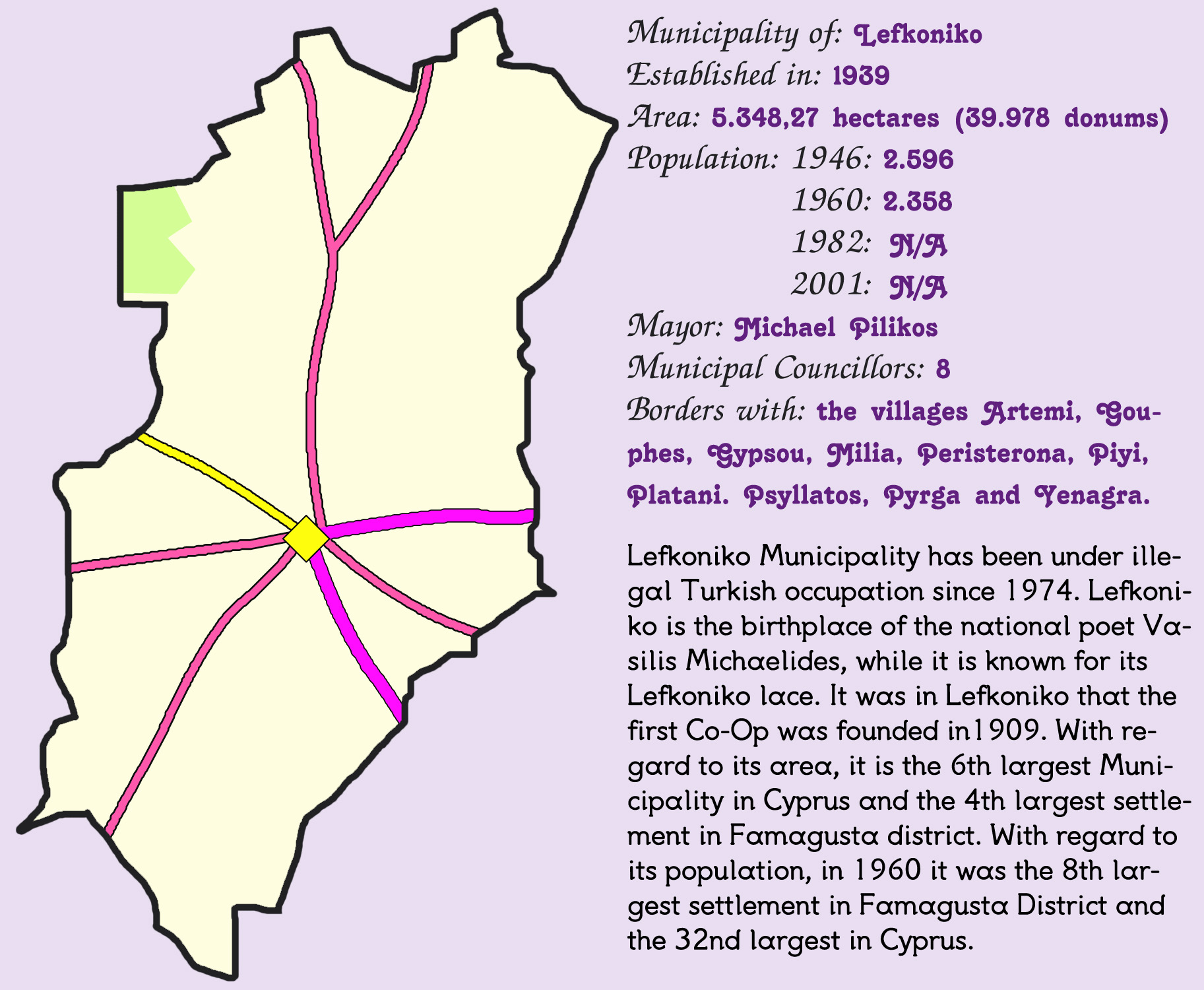 Concise presentation of Lefkoniko